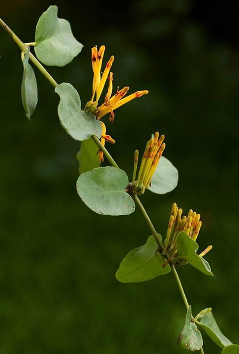 Agelanthus pungu, Hippo Pools. Umfurudzi Safari Area, Zimbabwe.